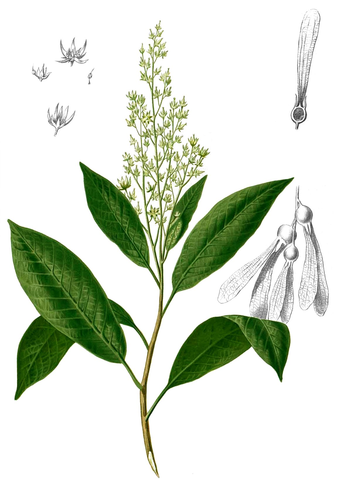 Anisoptera thurifera. Plate from book.